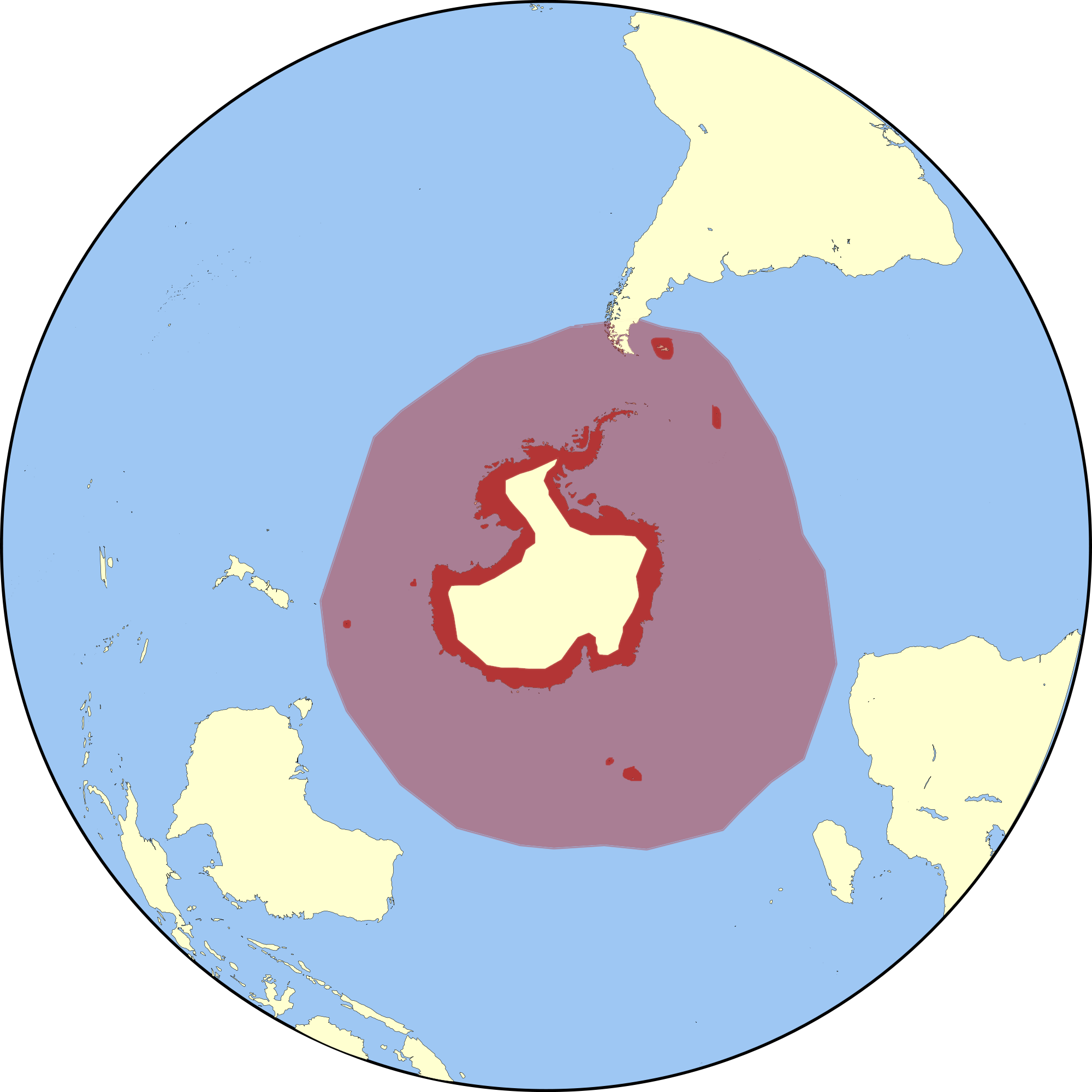 The Distribution of the Gentoo Penguin (Pygoscelis papua)